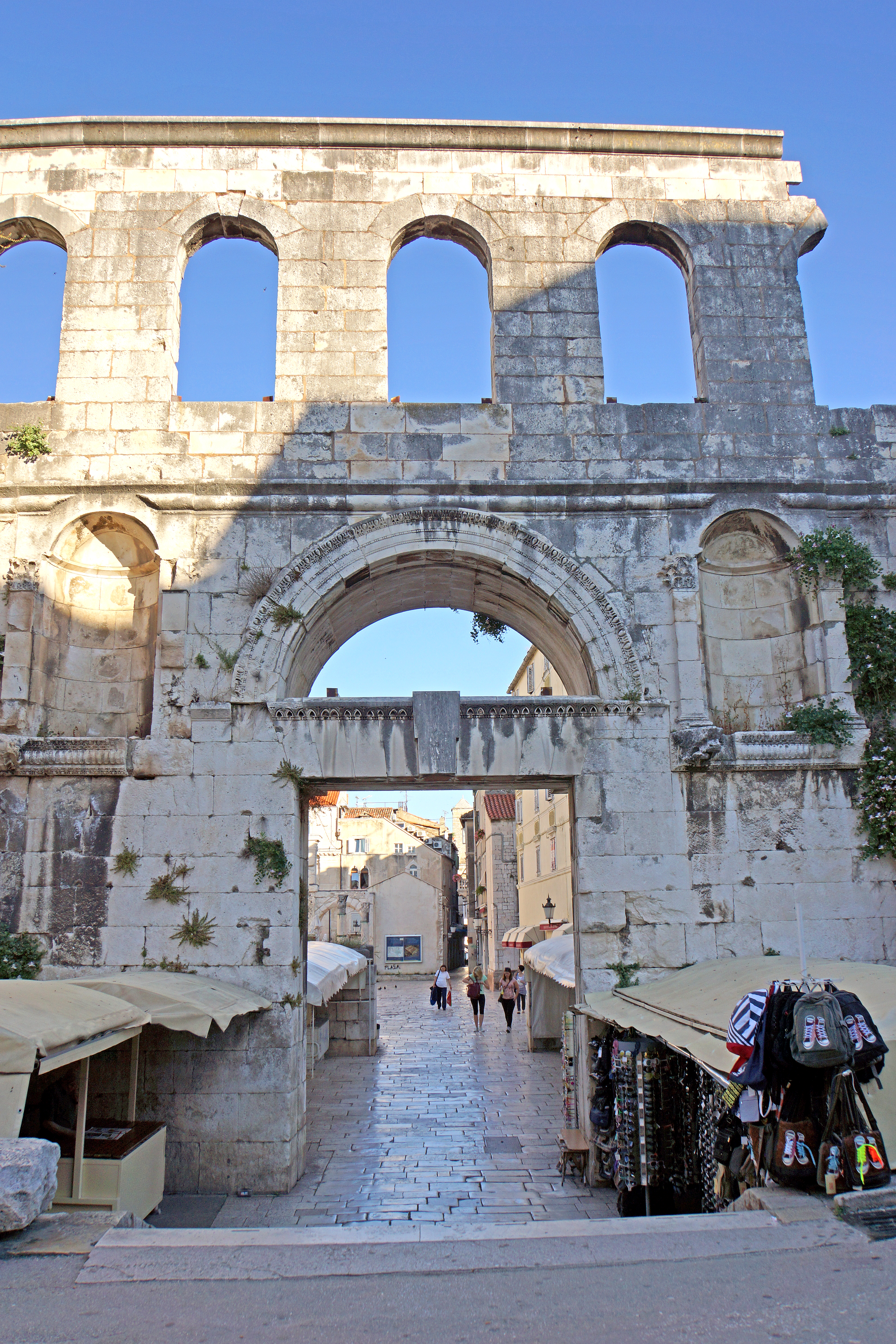 PLEASE,invitations or self promotion in your comments, THEY WILL BE DELETED. My photos are FREE for anyone to use, just give me credit and it would be nice if you let me know, thanks - NONE OF MY PICTURES ARE HDR. Silver Gate used to enter Diocletian' s Palace is located on the eastern wall of the palace, adjacent to main green market, Pazar and the church of St. Dominic. The Silver Gate also had a Propugnaculum, a defense system or human trap where invaders would be captured between the outer and inner gates.